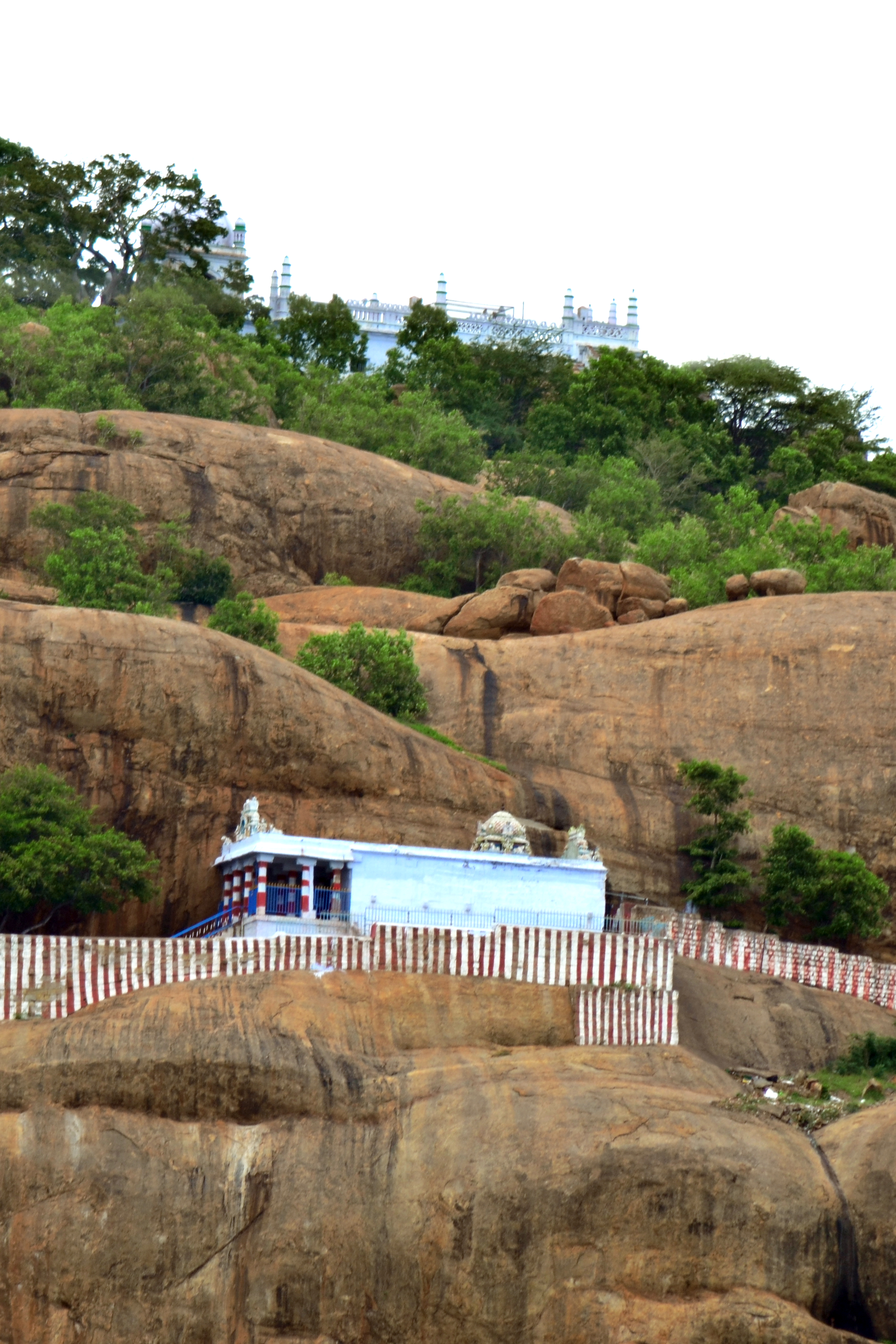 Thirupparankundram Dargah and Temple - view from long distance